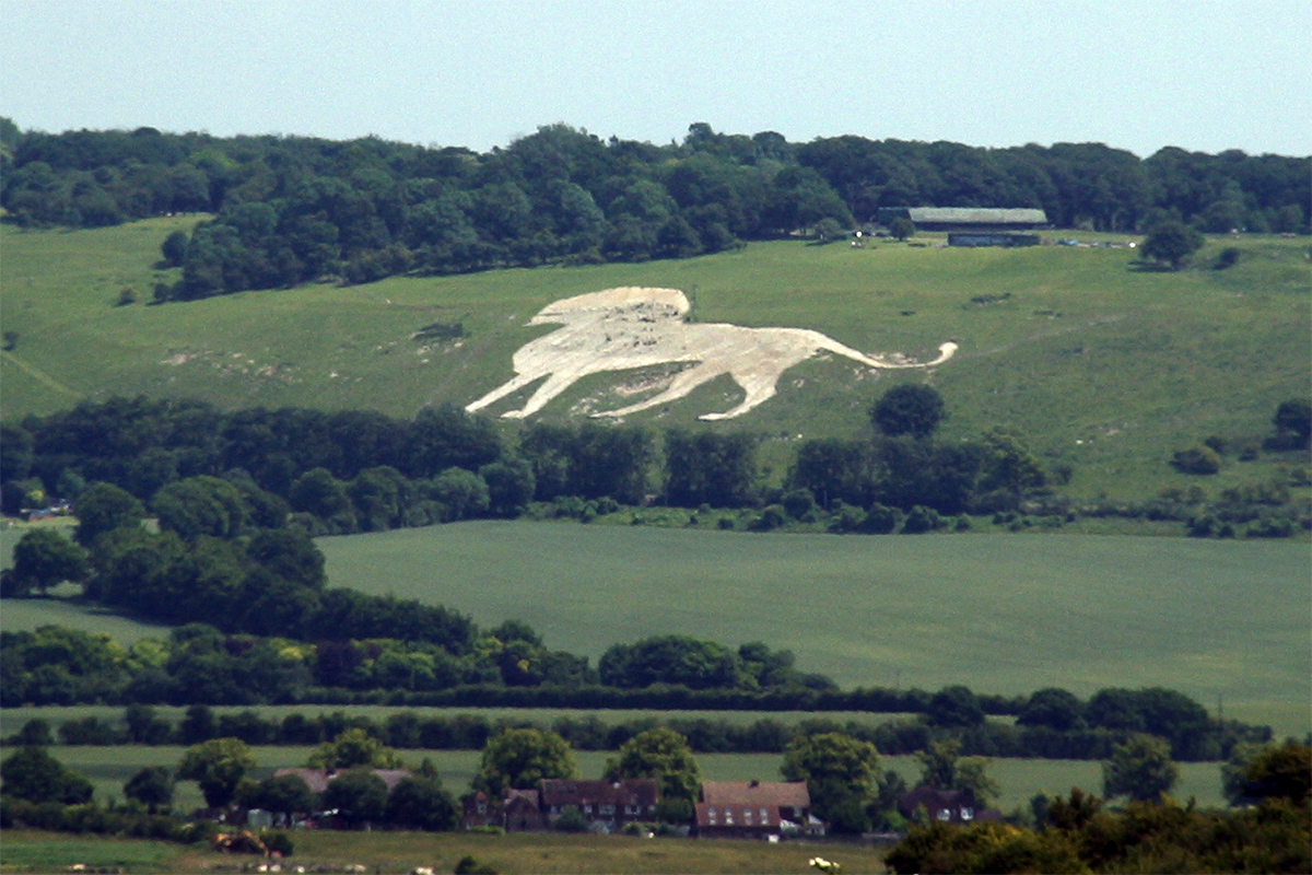 Whipsnade Zoo hill figure photographed from Ivinghoe Beacon. Photographed for Wikipedia by Pointillist and contributed under the cc-by-sa 3.0 license.